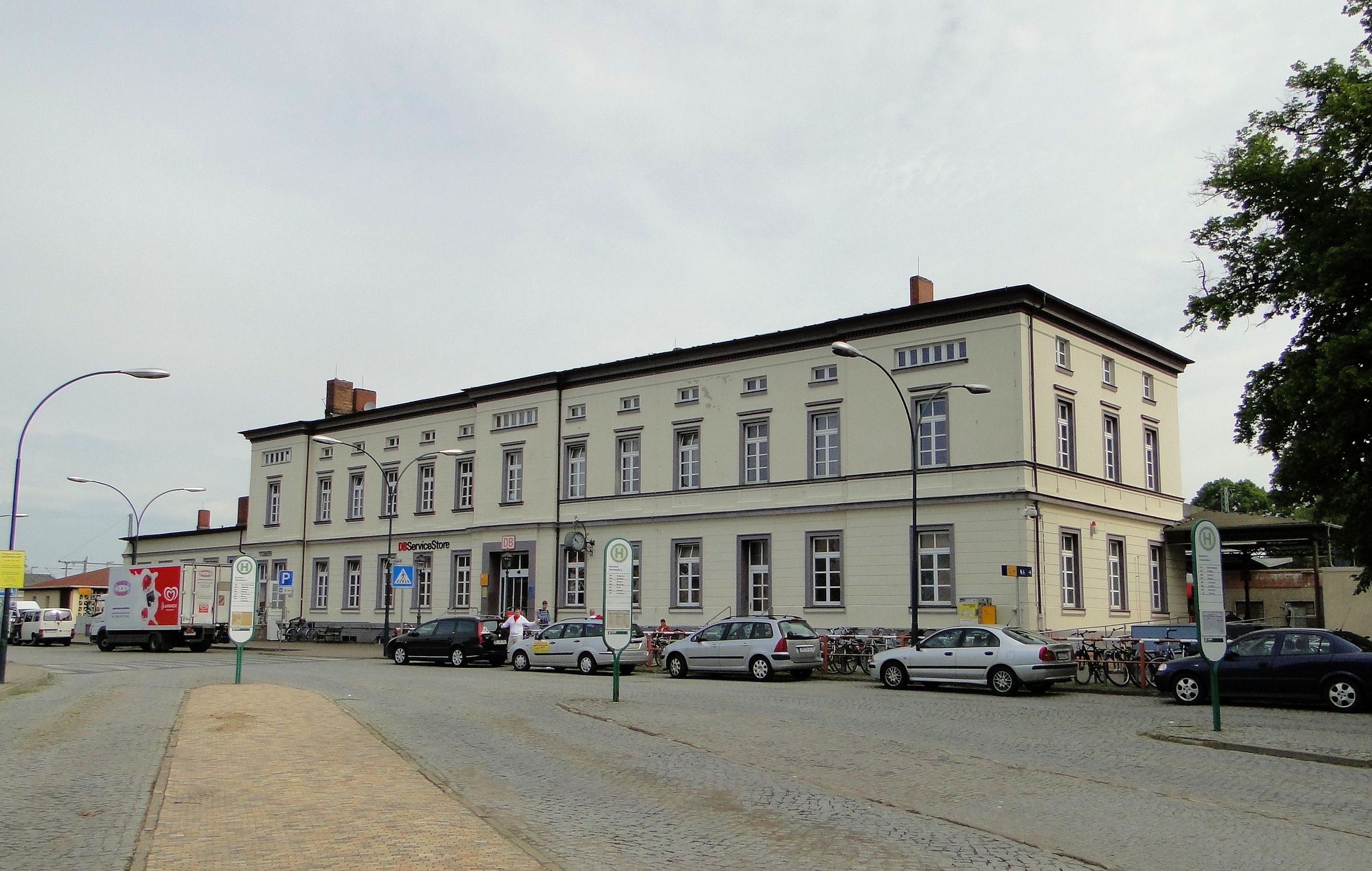 Train station in Ludwigslust, disctrict Ludwigslust, Mecklenburg-Vorpommern, Germany